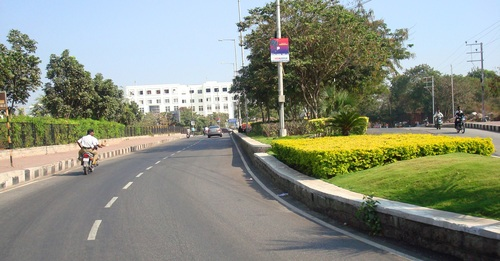 This image shows the caner hospital at Jubilee hills, hyd.self-photographed